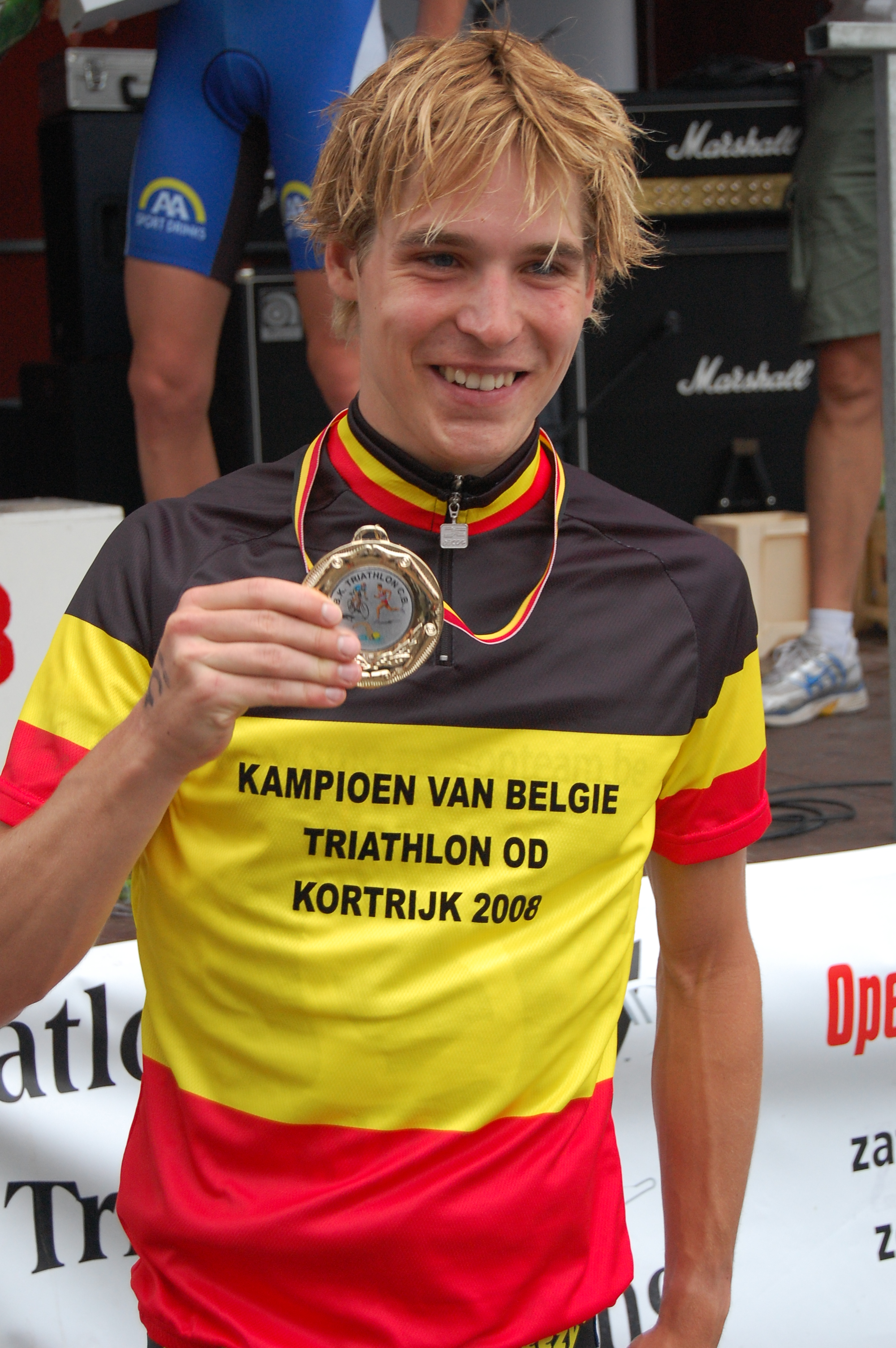 Simon De Cuyper, winner of the Belgian championship olympic distance triathlon held in Kortrijk in 2008.